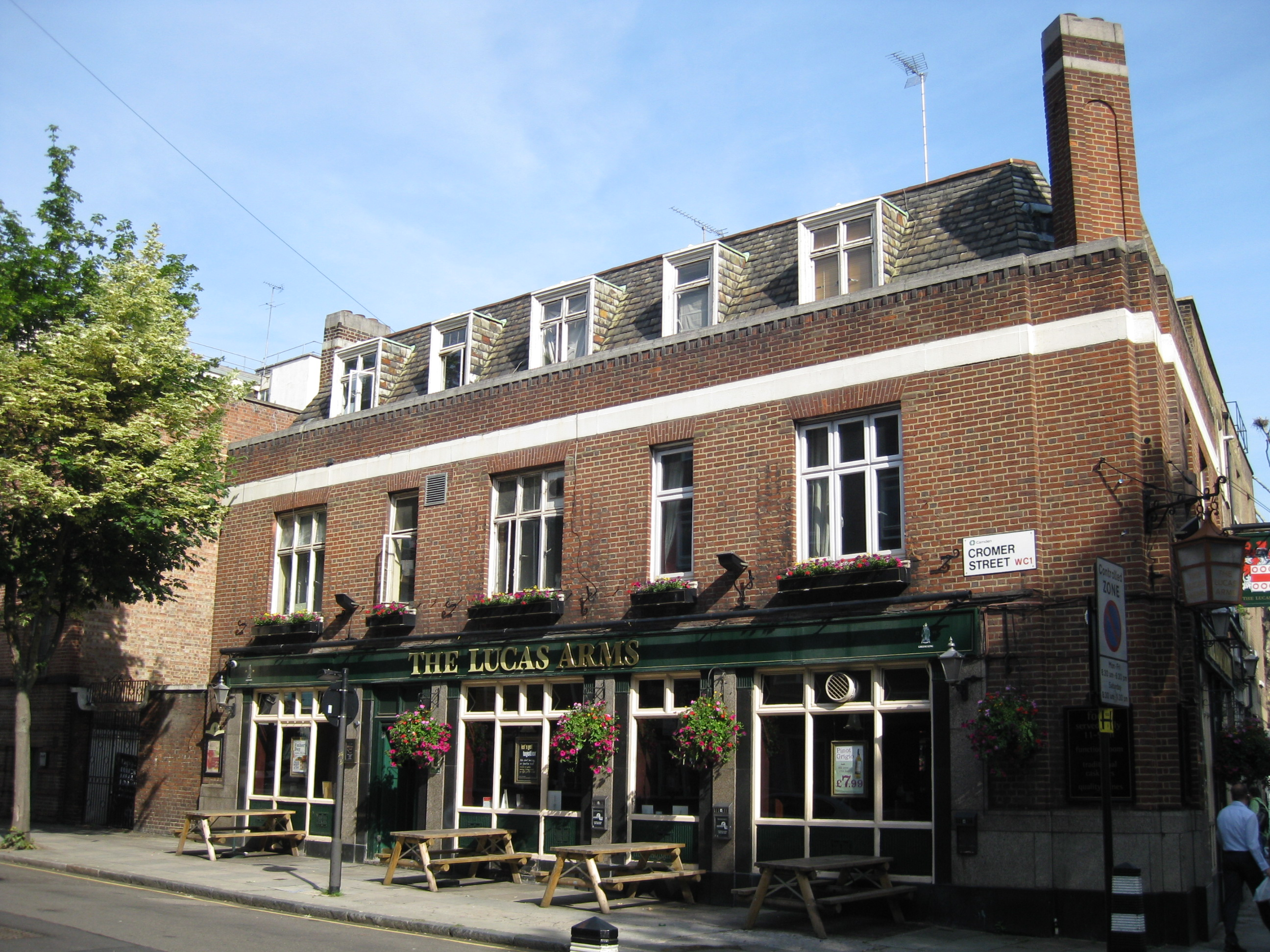 Lucas Arms, Cromer Street, WC1, London.